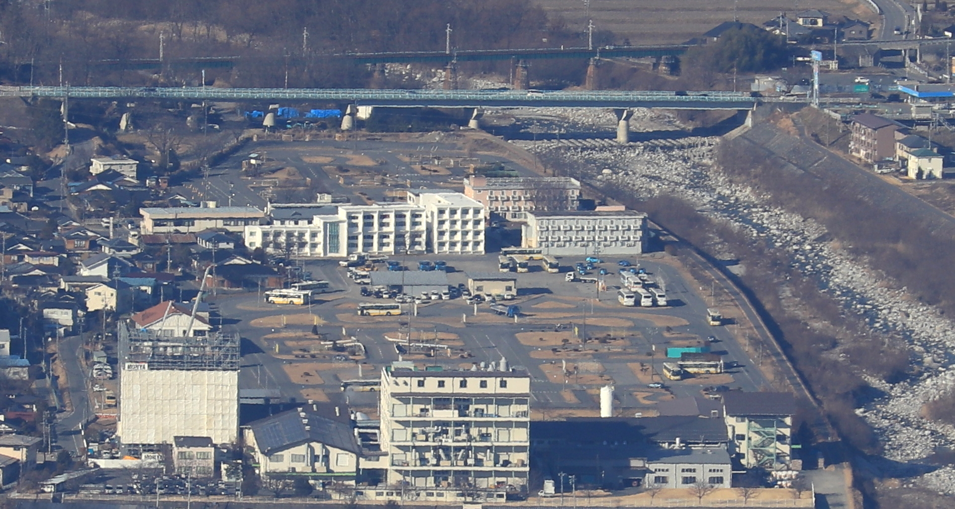 Komagane Driving school seen from Mount Tokura in Komagane, Nagano Prefecture, Japan. Canon EOS Kiss X9